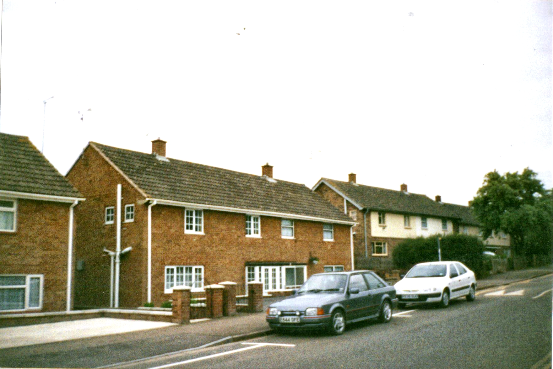 Banbury's Prescot Road and Avinue were biult brtween 1964 and 1965.